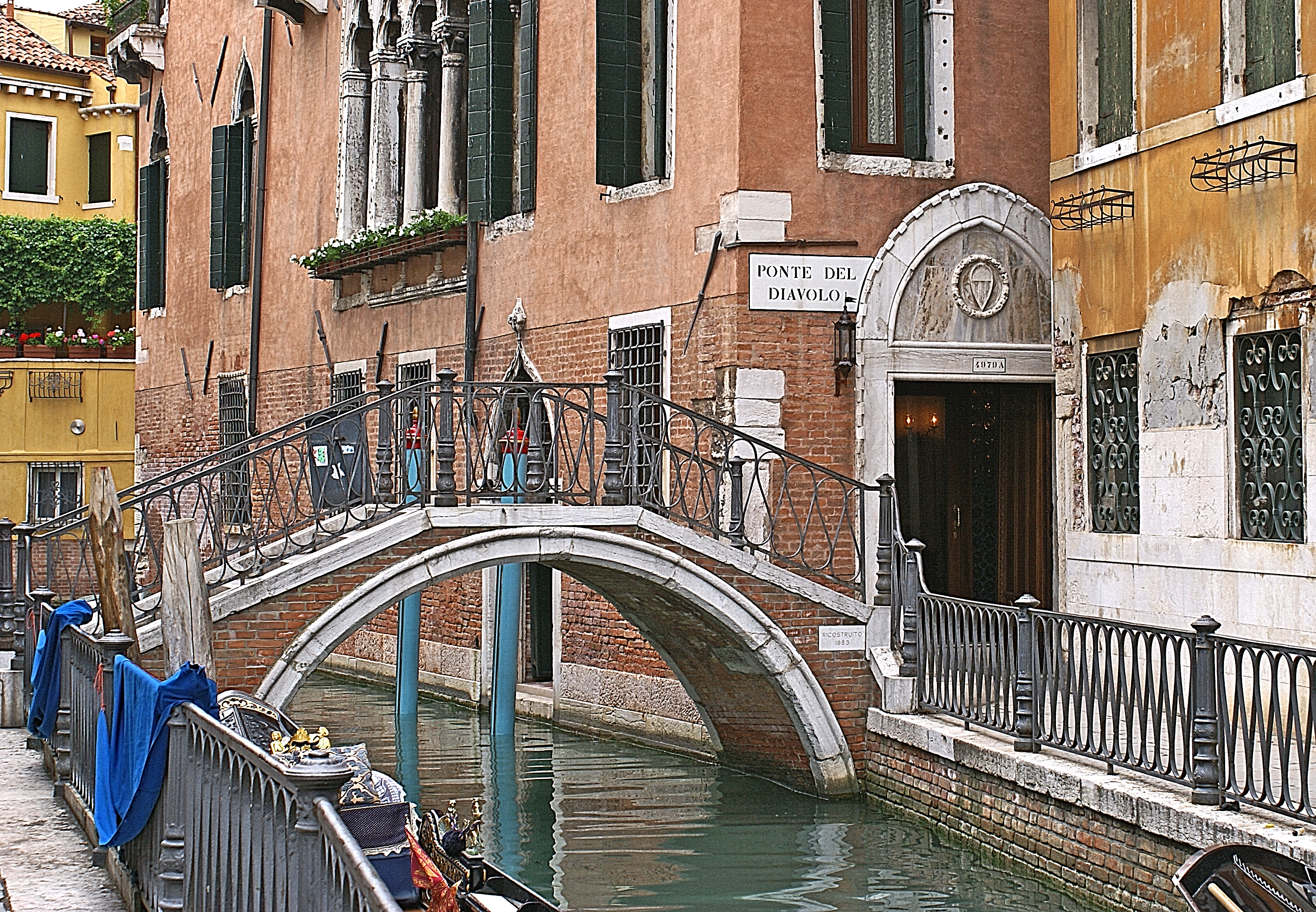 Ponte del Diavolo, Venice.